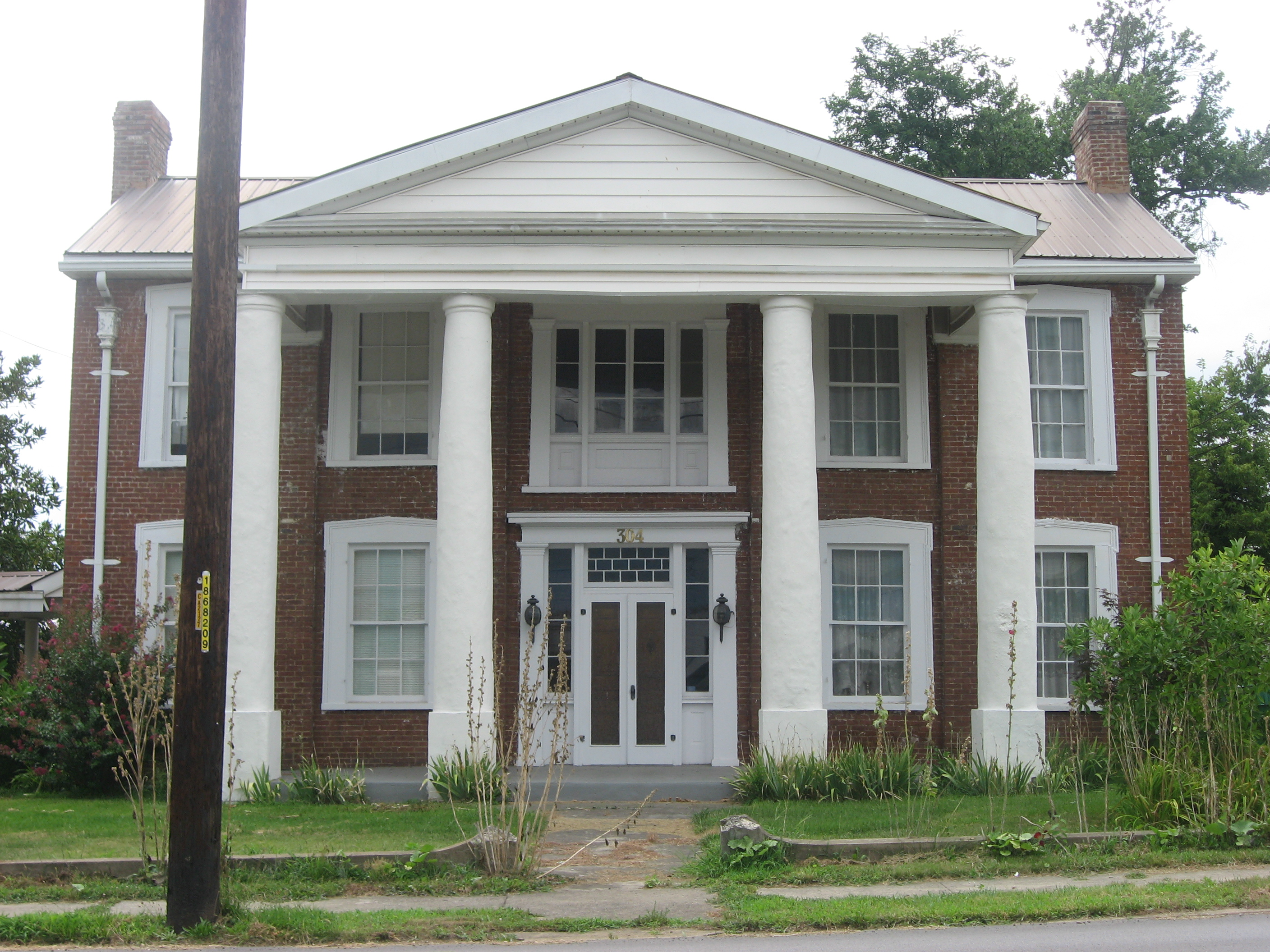 Front of the Sutfield House, located at 304 N. Main Street in Harrodsburg, Kentucky, United States. Built in 1843, it is listed on the National Register of Historic Places.